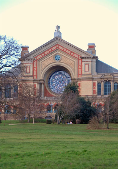 Alexandra Palace. The rose window on the south-east front. Image made by hjuk who is also copyright holder This window was renovated and partially redesigned by architect E.T. Spashett for the Ministry of Works in 1947, following WWII bomb damage. The broken pieces of glass were still lying shattered on the floor, and the challenge was to rescue as many pieces as possible, for incorporation into the renovated window. This was one of Spashett's first civilian tasks after being demobbed from wartime service as RAF pilot.